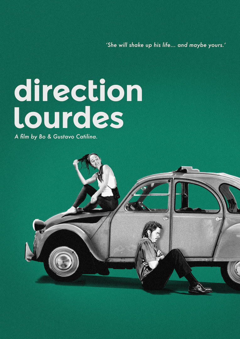 This is the official film poster of Direction Lourdes, a French road movie directed by Bo & Gustavo Catilina.